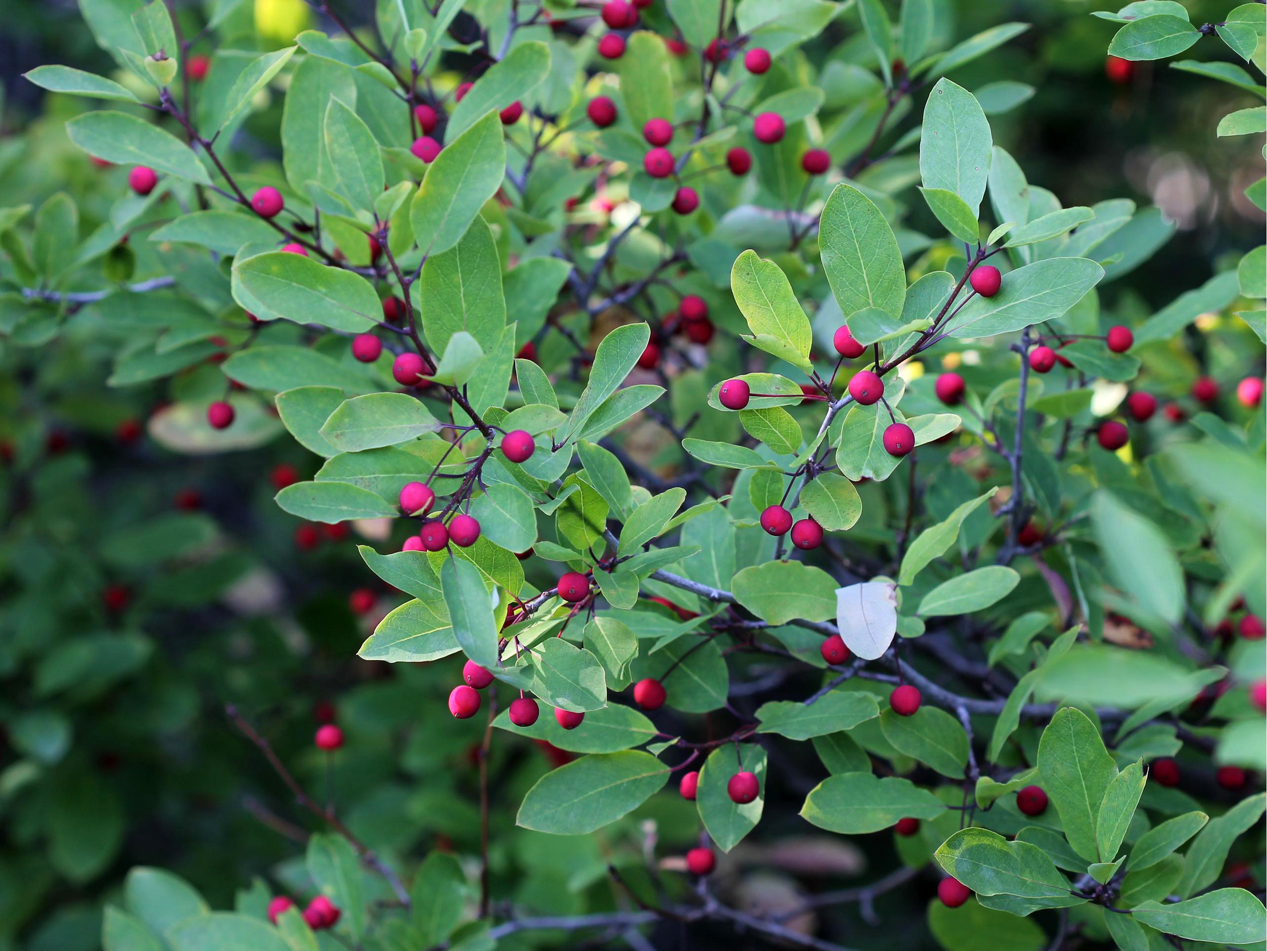 Ilex mucronata - mountain holly - fruit - late August, 2013 - Section 36, Dennis Township, Sault Ste. Marie, Ontario, Canada